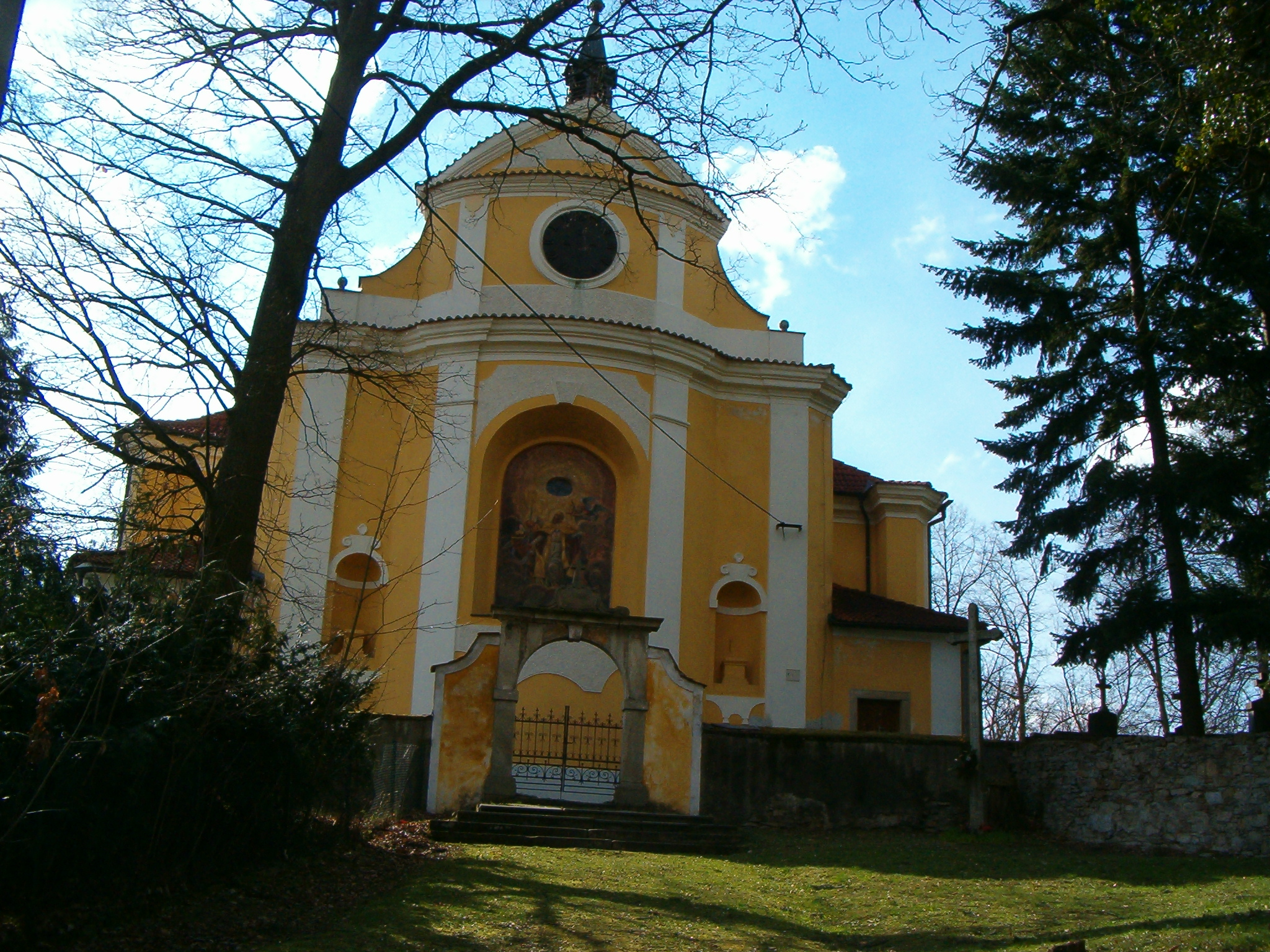 Štěkeň village (district Strakonice) - detail of church of St. Nicholas